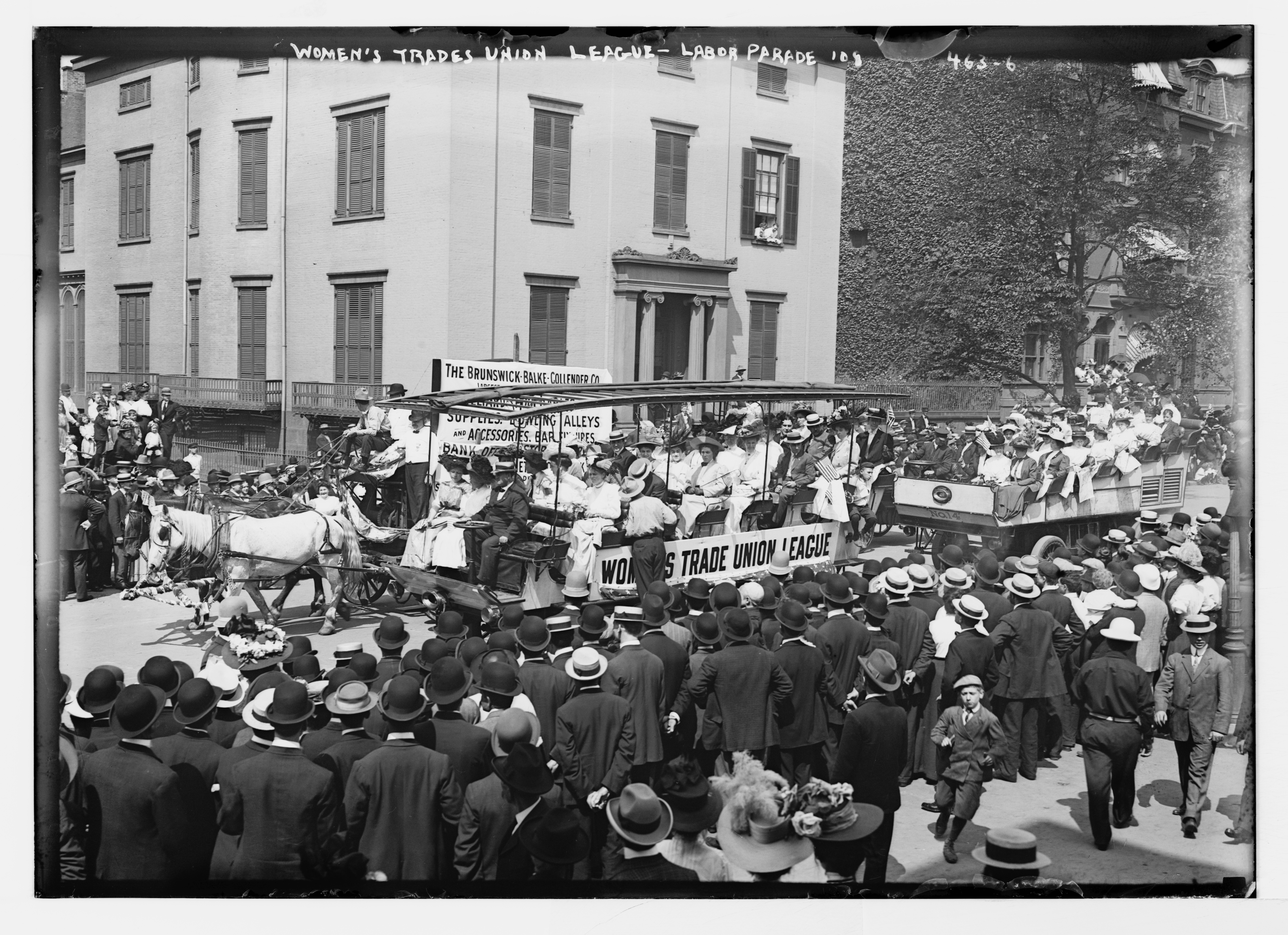 Women's Trade Union League, Labor Parade '08- New York